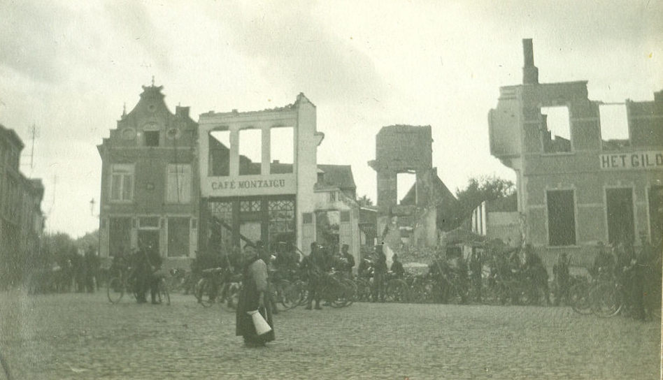 The city of Aarschot in September 1914. From the collection of Jean Pecher.